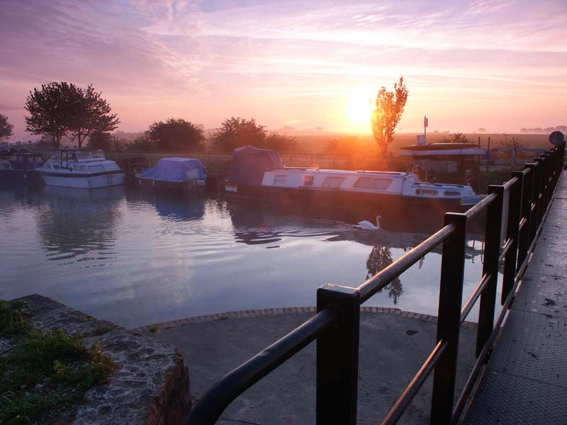 A picture of Bethells Bridge, Hempholme, East Riding of Yorkshire, England, in the early morning sunlight.